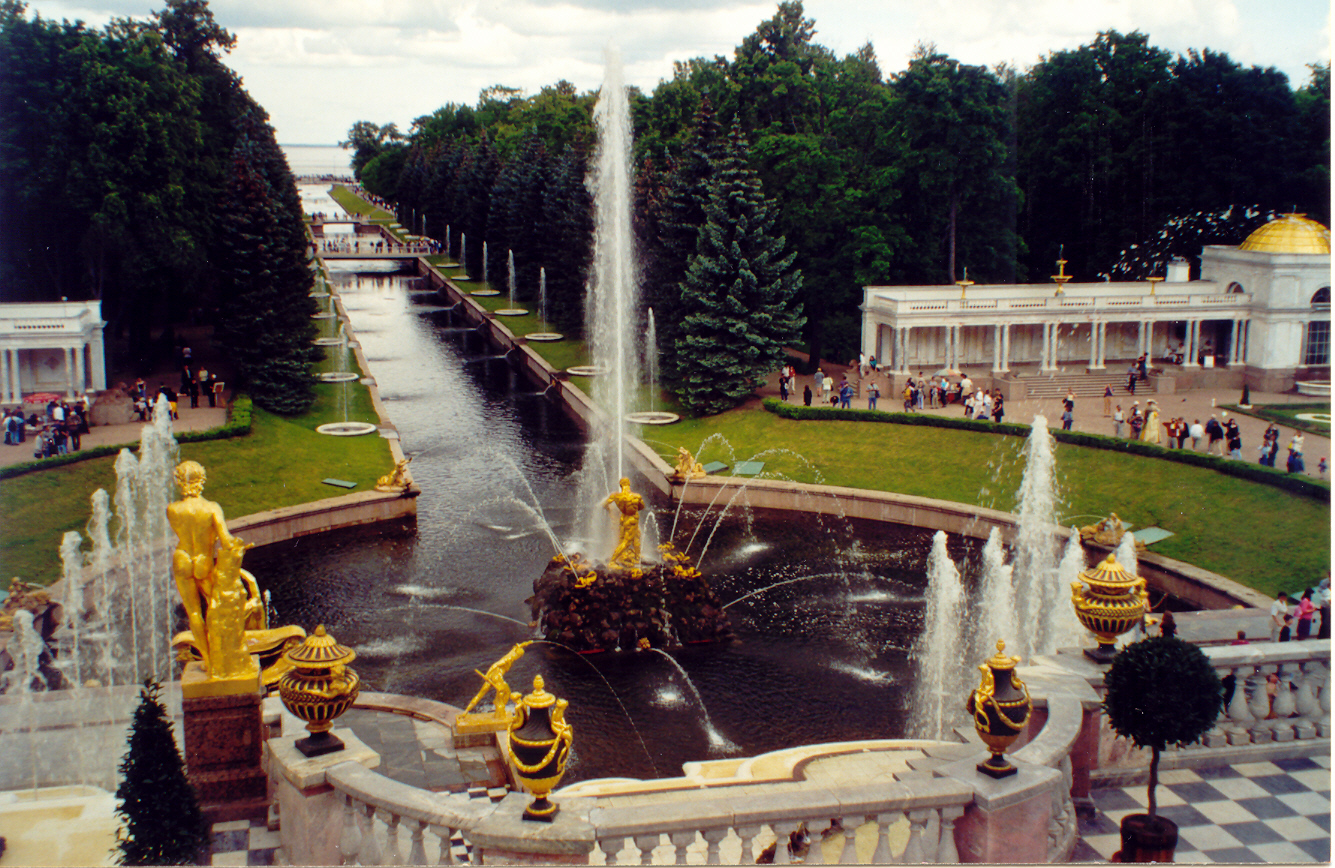 Saint Petersburg,Russia- Summer Palace at Peterhof - gardens2